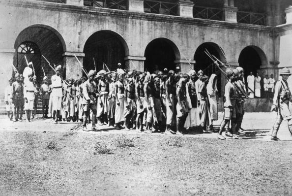 Mappila (Moplah) prisoners go to trial at Calicut, Malabar District Coast, charged with agitation (1921-22) against British rule in India.